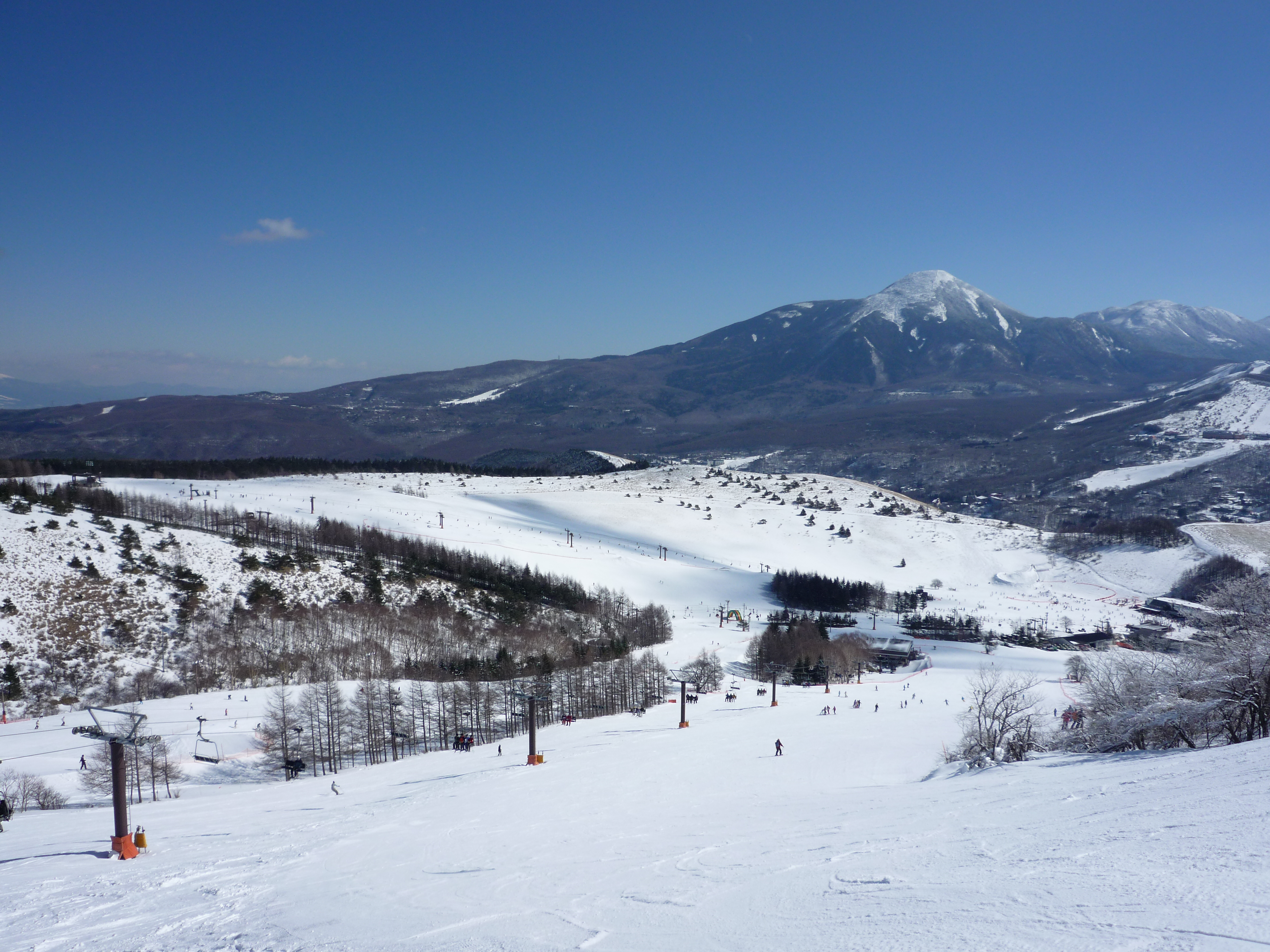 Kurumayama Kōgen Snow Resort and Mt. Tateshina in Chino, Nagano, Japan.